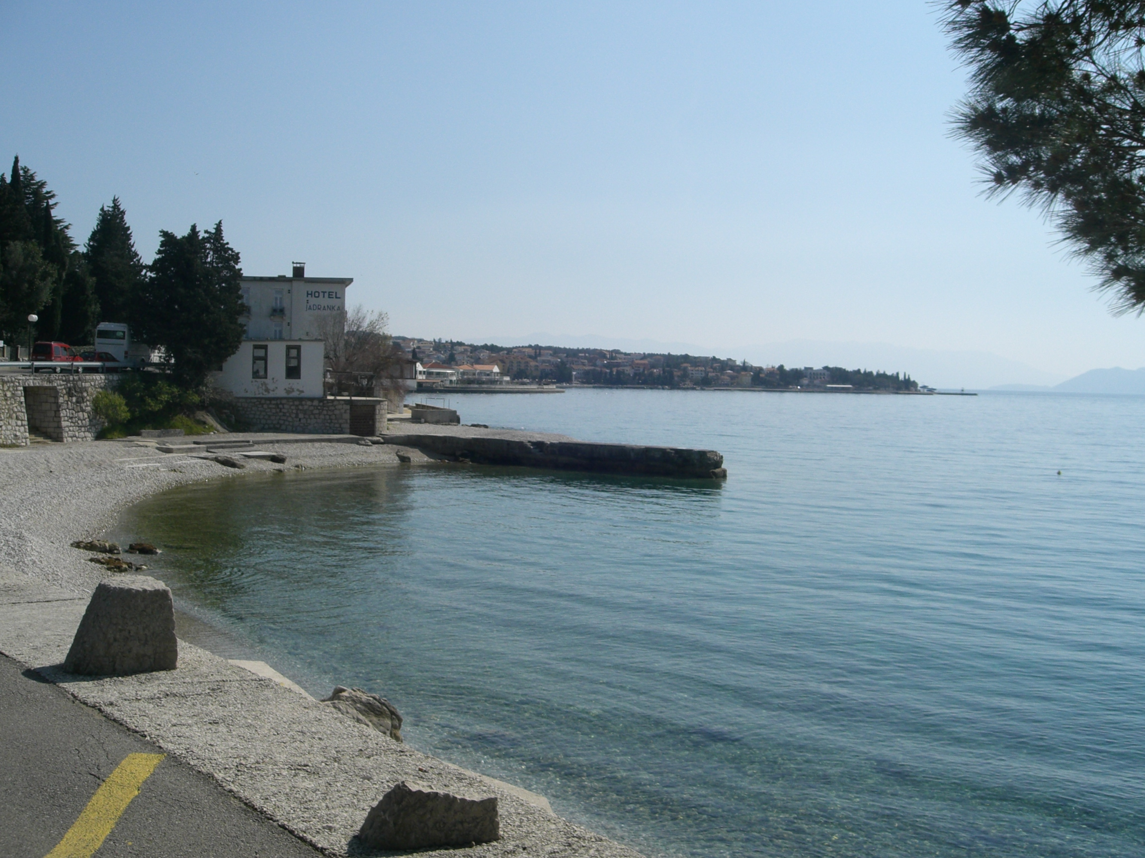 Selce, Croatia